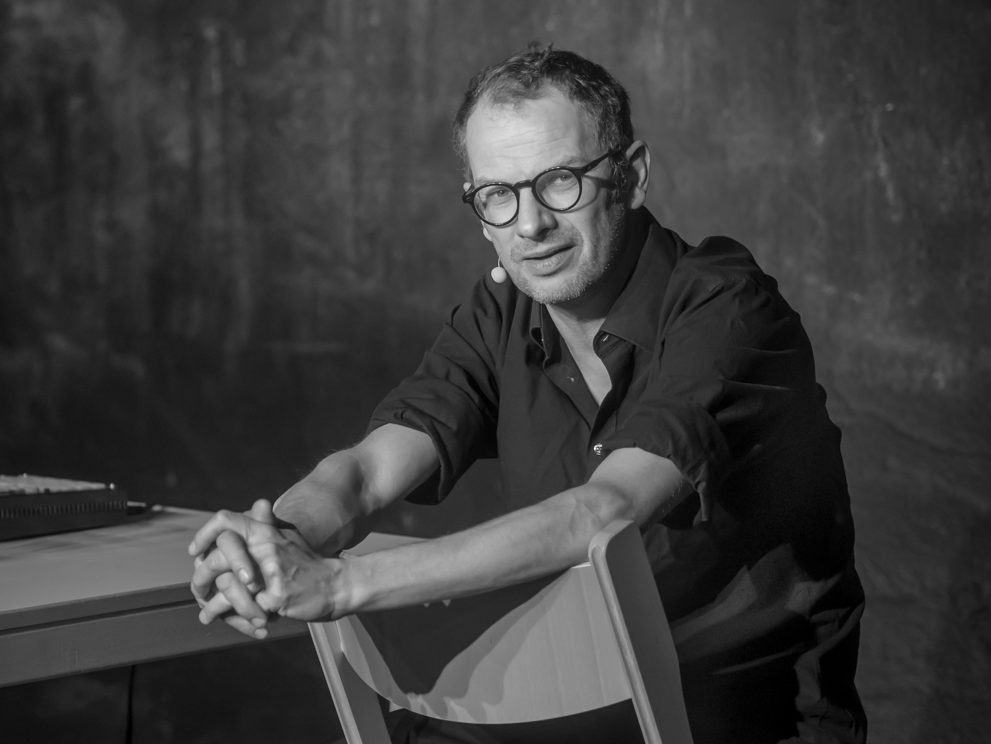 Kleinkunstkreis Donaueschingen, Germany - 9th Dezember 2016